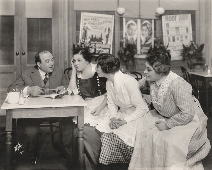 L. to R. : George Sidney (actor), May Boley, Fanny Brice & Vera Gordon in the play Why Worry?, Broadway - publicity still (cropped)